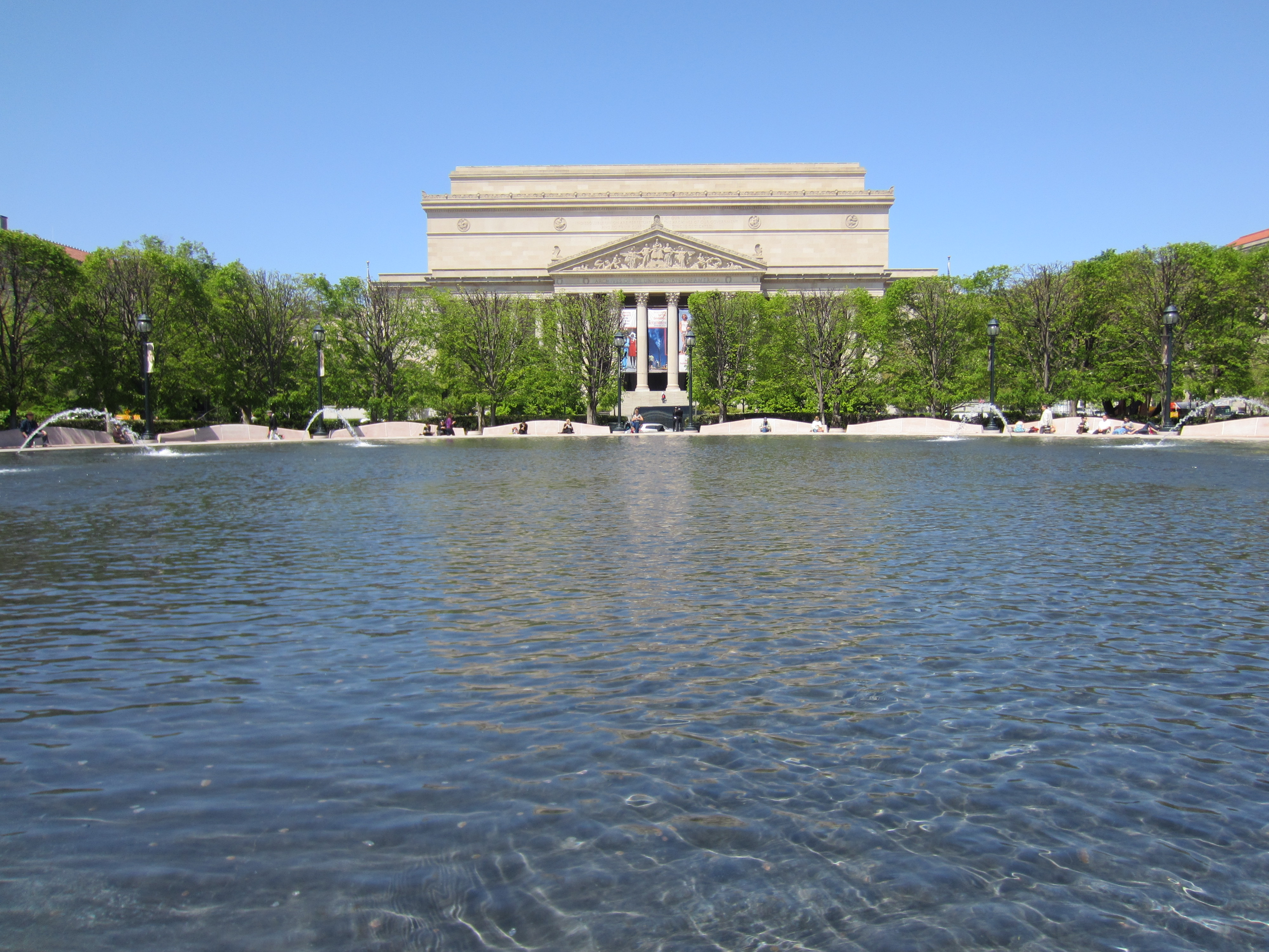 National Gallery of Art Sculpture Garden - Washington, D.C. (2013)